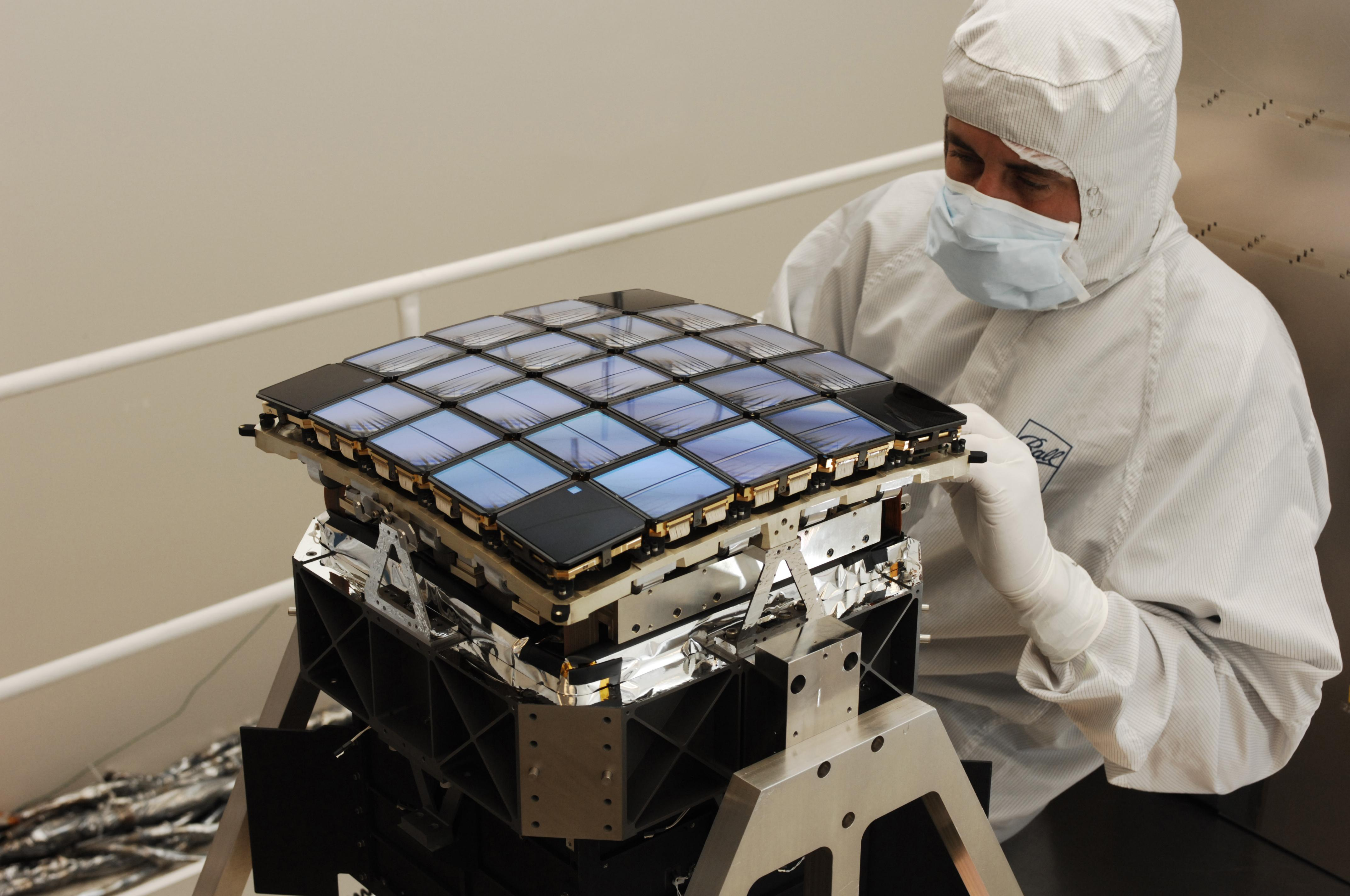 Kepler's telescope CDD matrix: the focal plane consists of an array of 42 charge coupled devices (CCDs). Each CCD is 2.8 by 3.0 cm with 1024 by 1100 pixels. The entire focal plane contains 95 mega pixels.